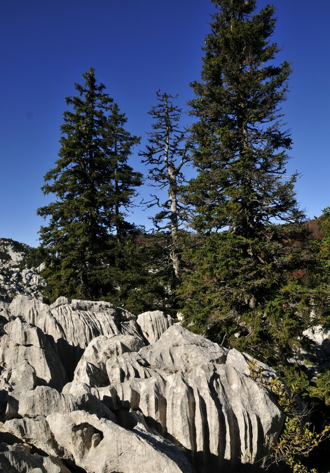 Karstic forms to the Premužić trail.